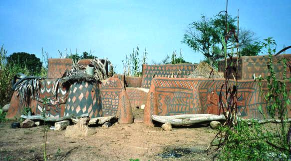 The painted houses at VOPAC (Village Of Pottery Art and Culture), a village 8km west of Bolgatnaga. The houses are painted by the old women of the town, during the dry season, when there is little fieldwork to be done. The Vopac guest house is in one of these painted houses, and the revenue generated by tourists renting the guest house is invested back into the local community.